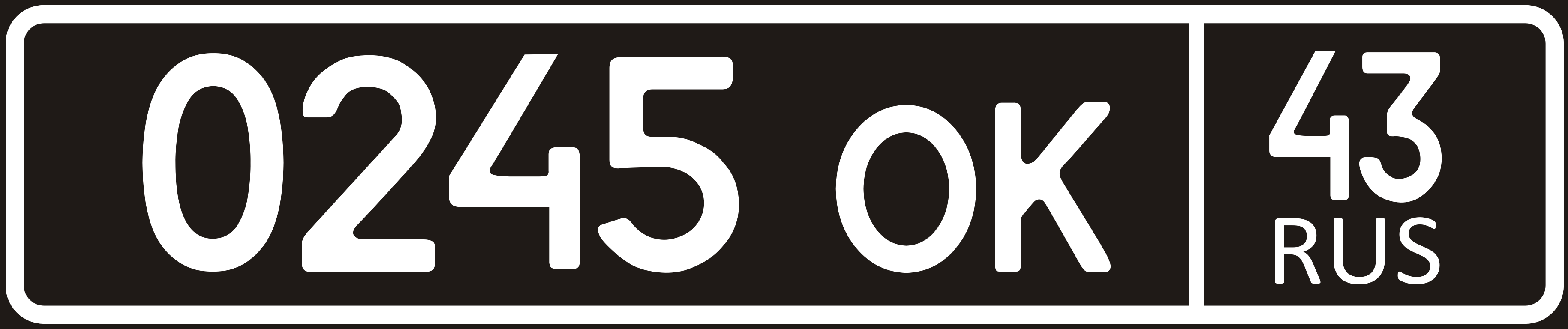 Russian license plate for military vehicles.